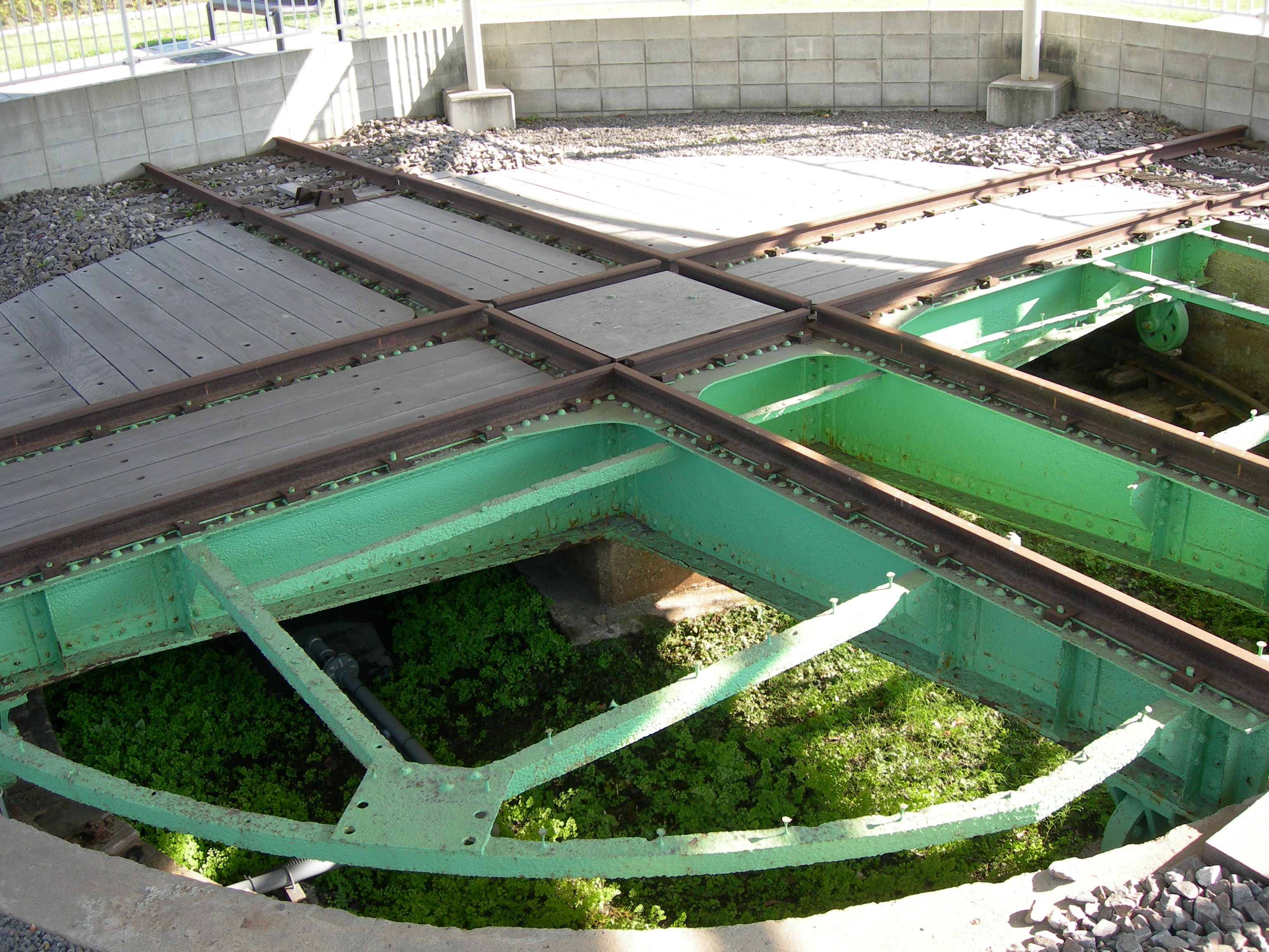 Turntable at former Taketoyominato Station